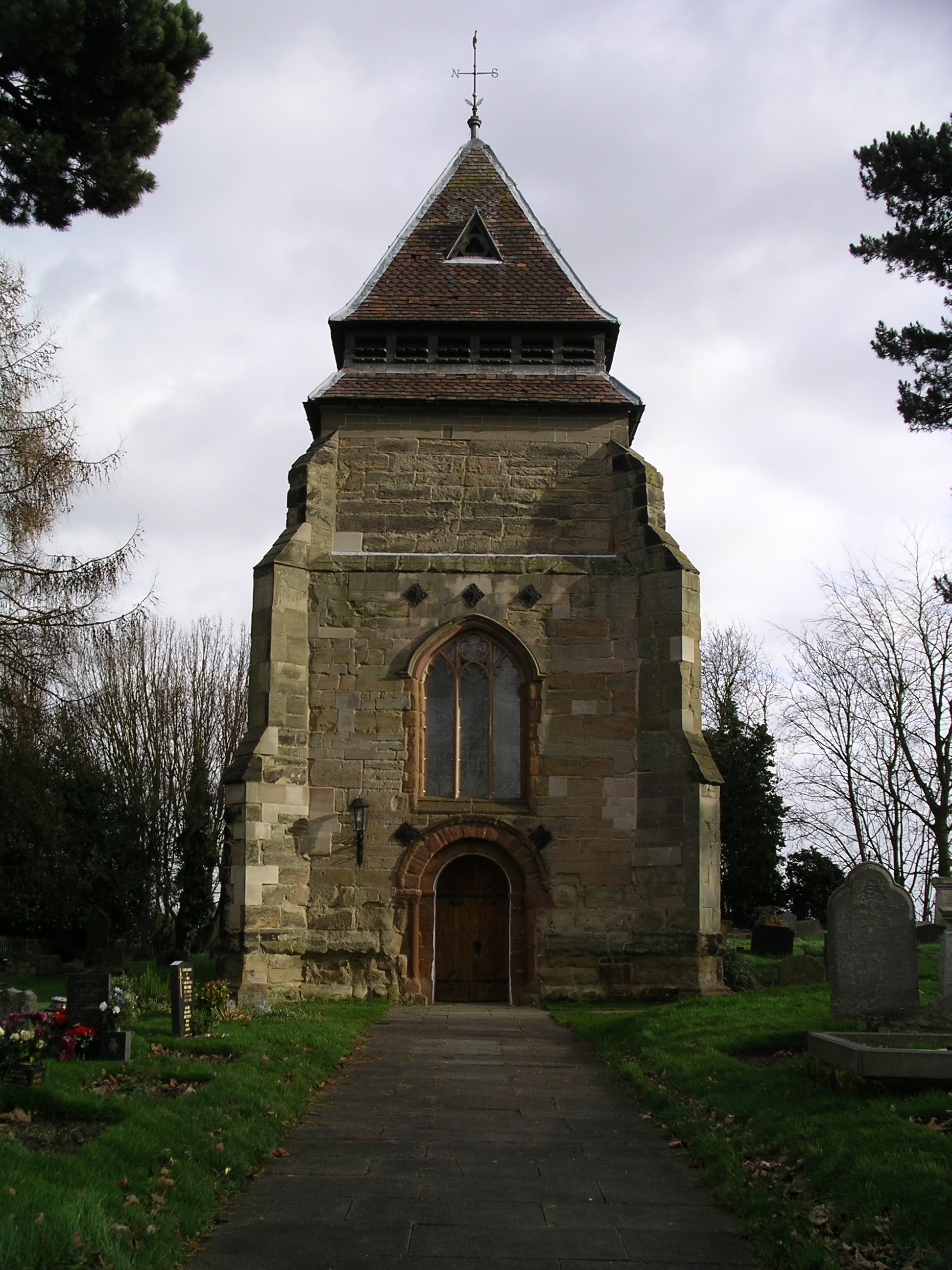 Church of St Mary Magdalene, Wyken, Coventry, England. View from the road of the church tower.